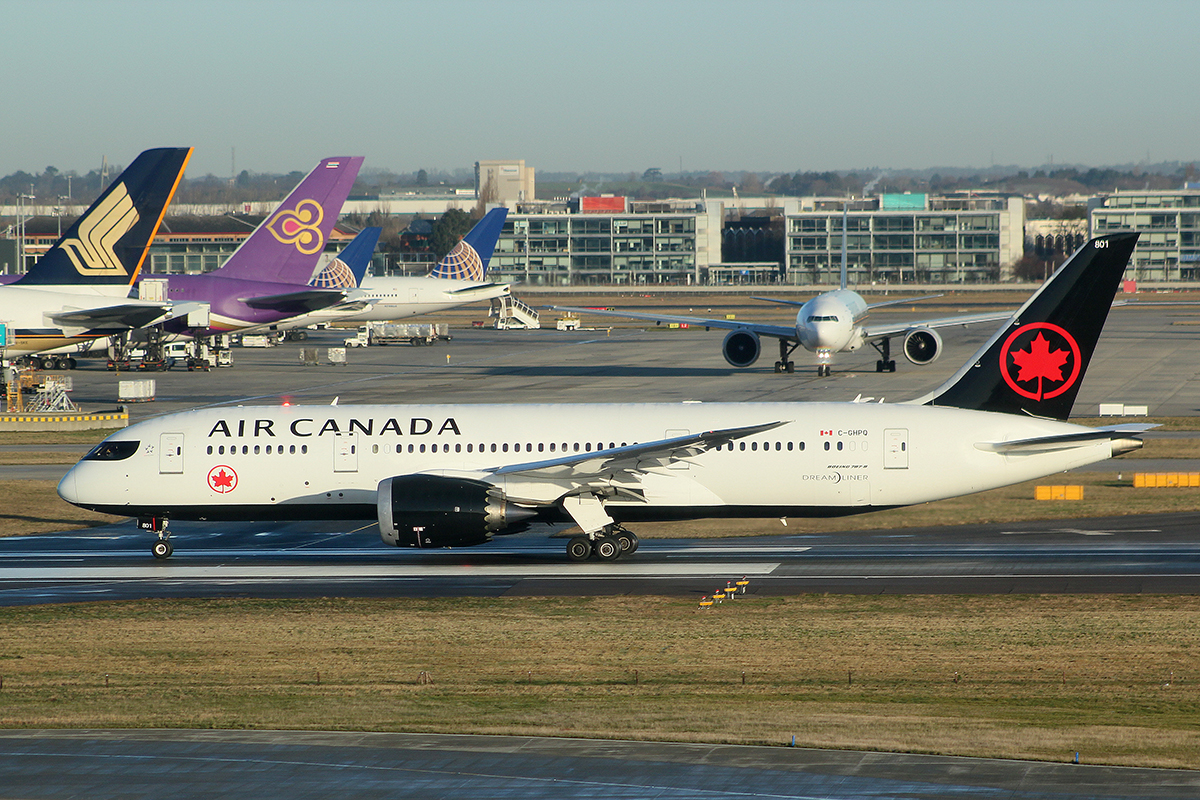 C-GHPQ Boeing B787-8 @ Heathrow 28/12/2017